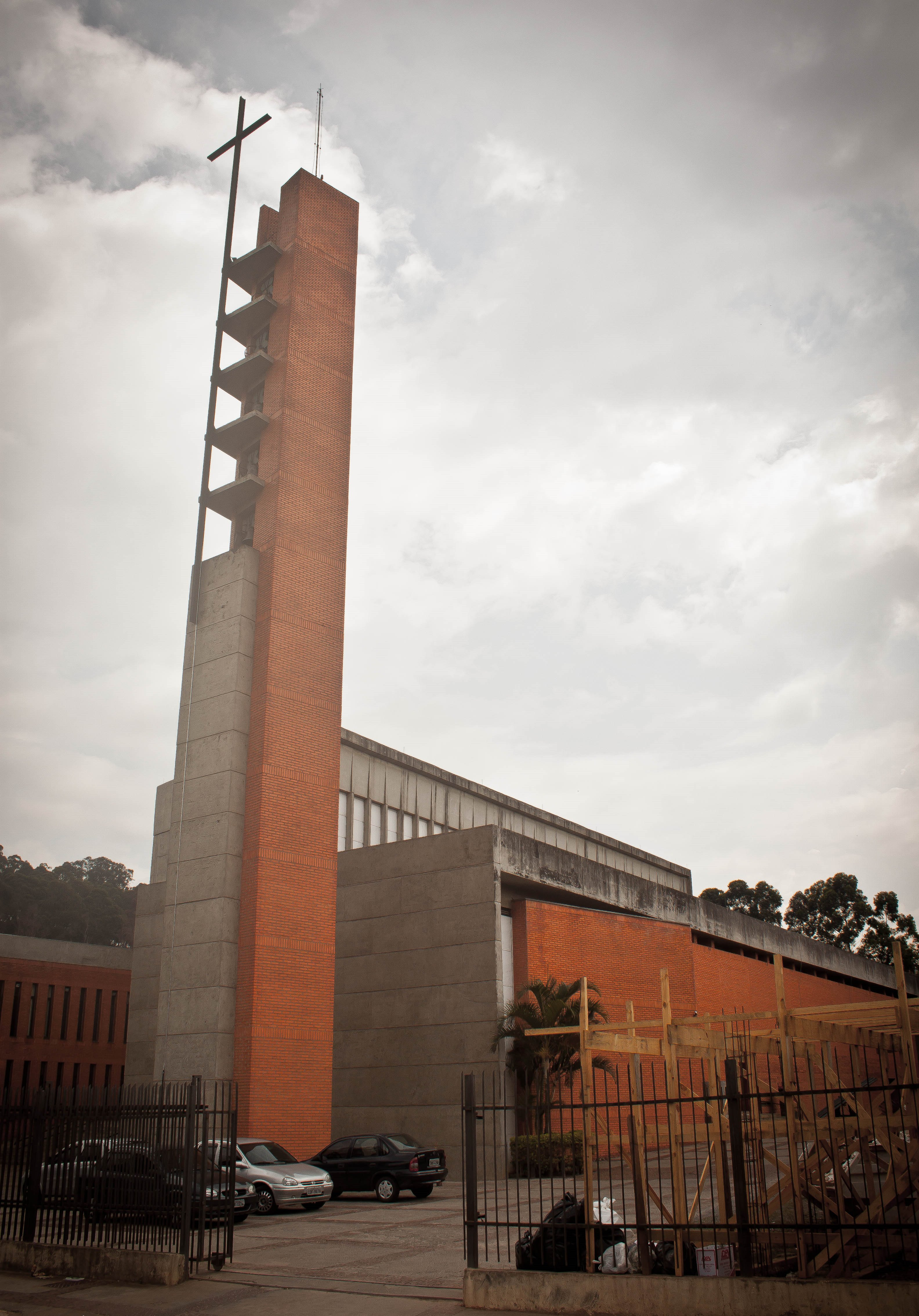 Cathedral of Catholic Church on Campo Limpo neighborhood, in the city of São Paulo, Brasil.